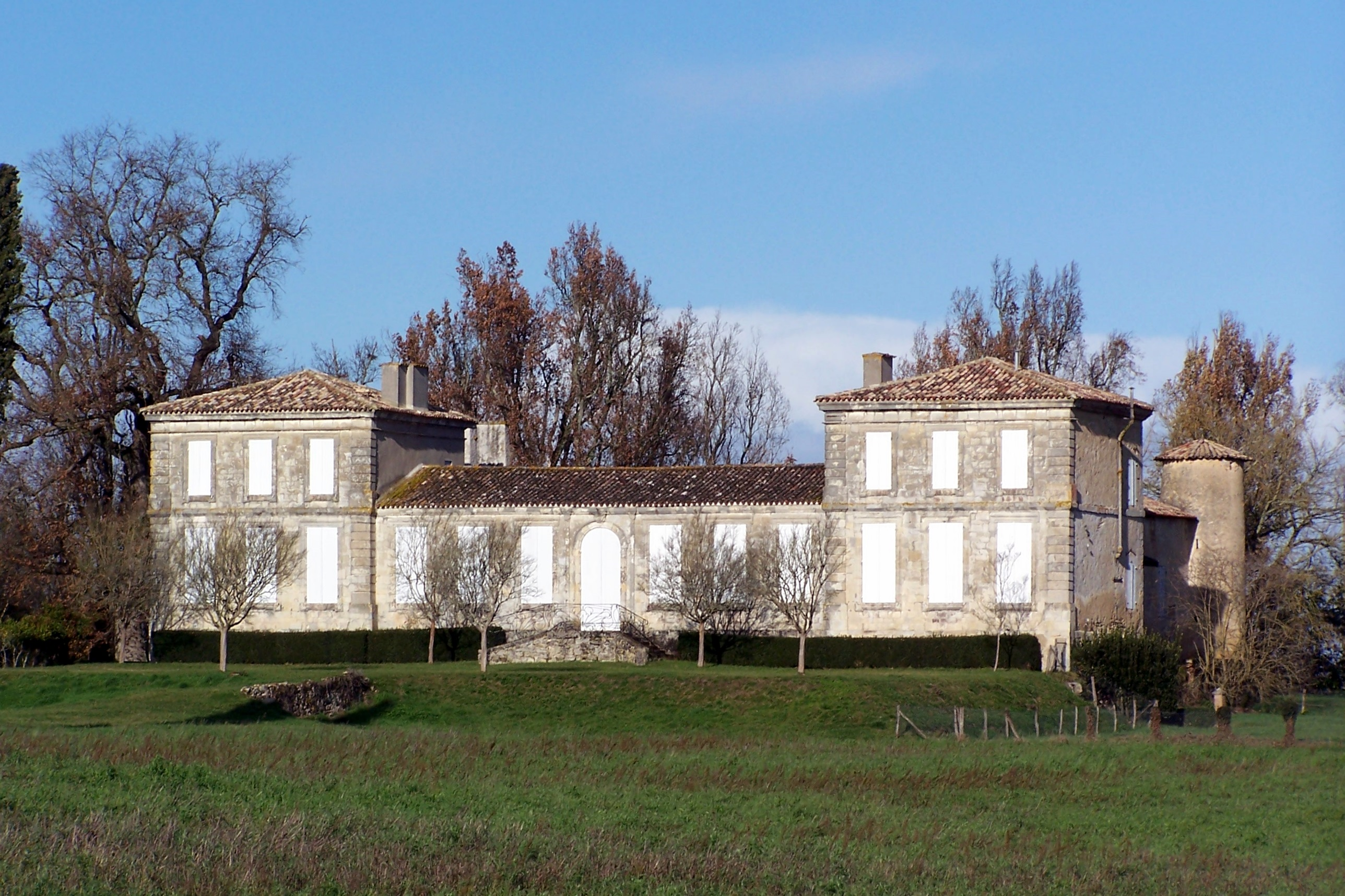 Castle of Labescau (Gironde, France)